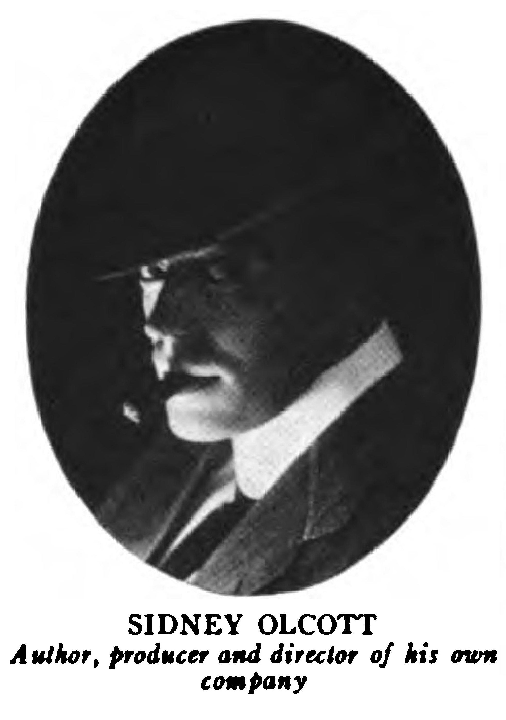 Sidney Olcott (September 20, 1873 - December 16, 1949) was a Canadian-born film producer, director, actor and screenwriter.